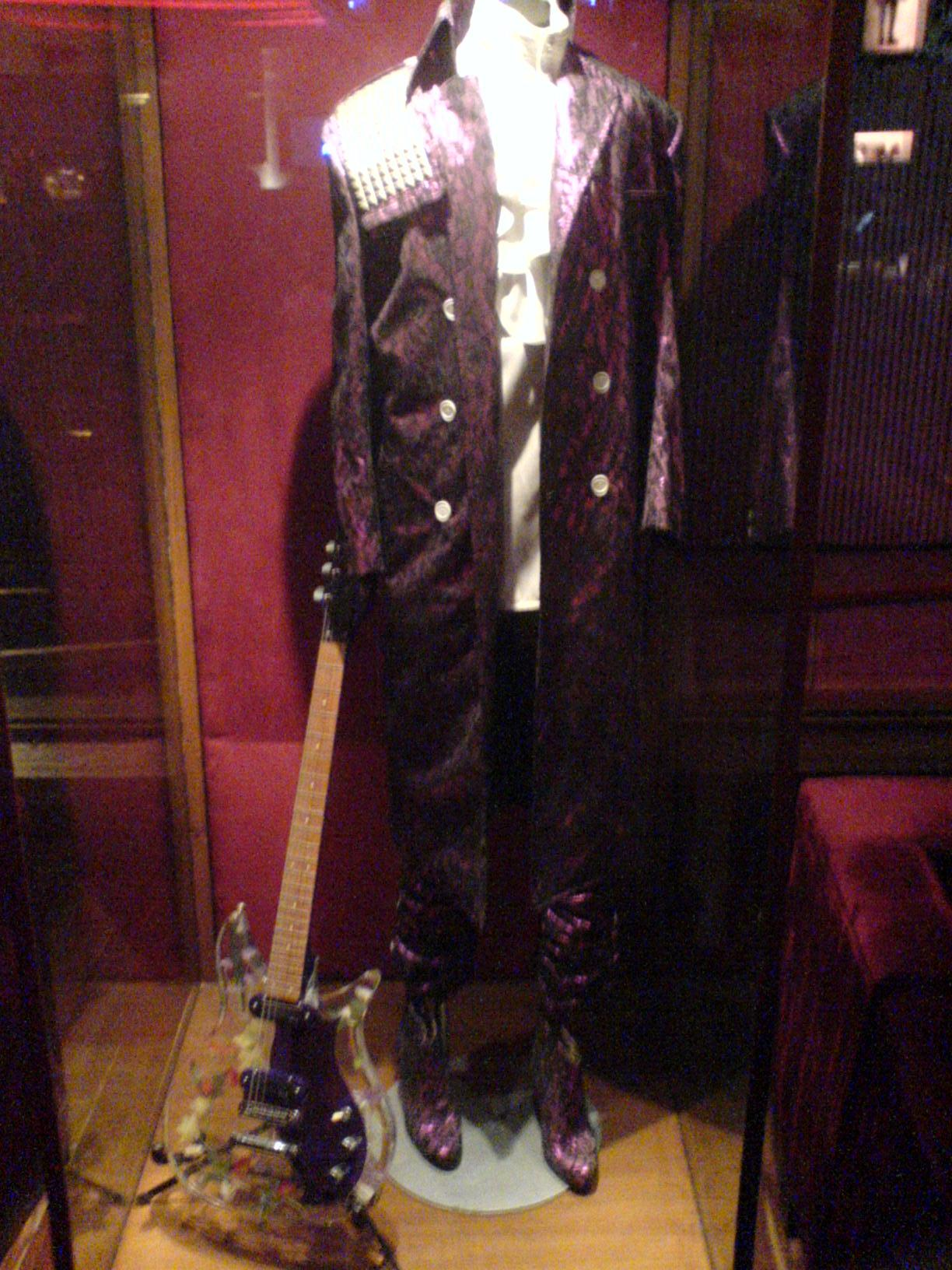 The Prince's Clothes